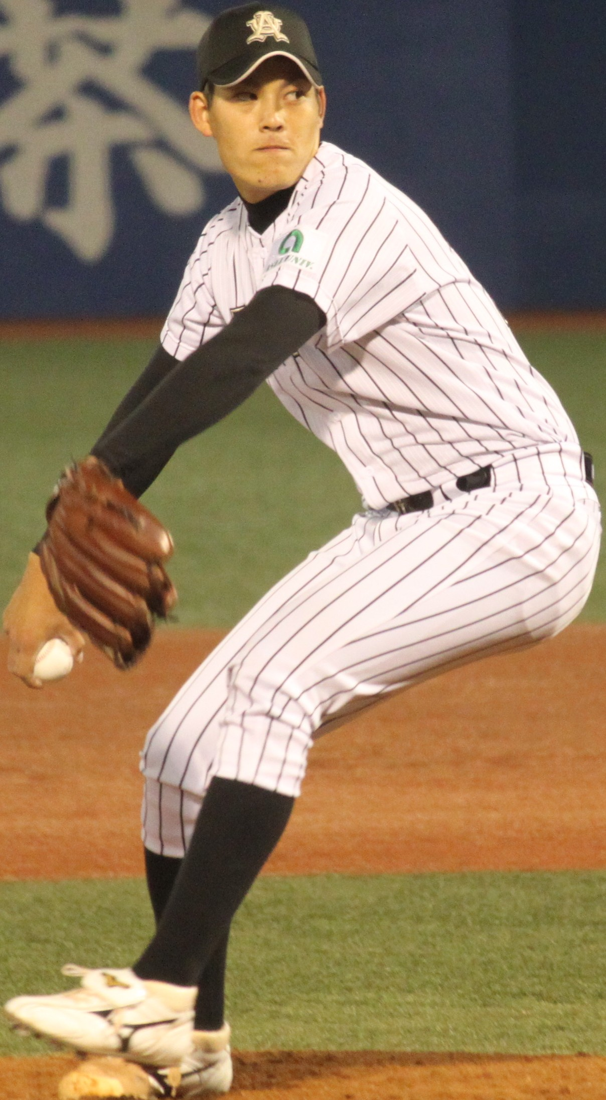 Aren Kuri, pitcher of the Asia University Baseball Club, at Meiji Jingu Stadium.